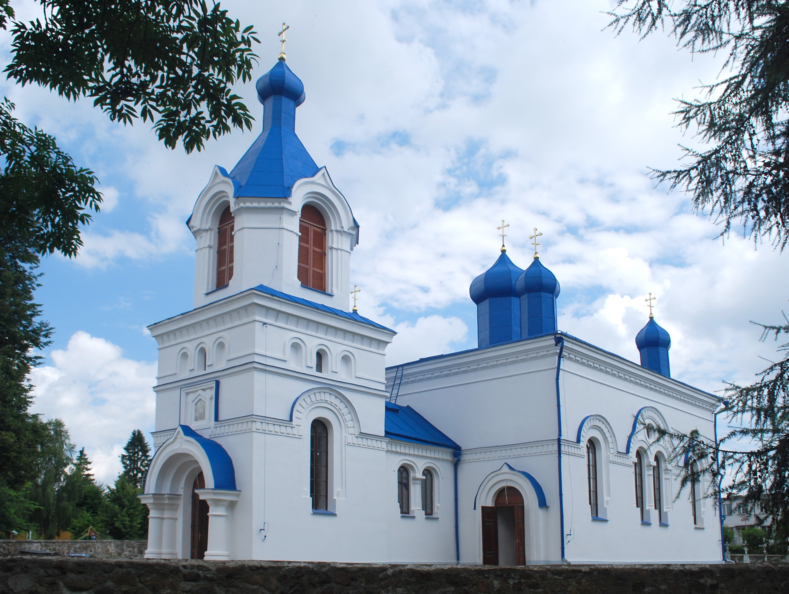 This photo from Podlaskie Voievodeship was taken during Polish Wikiexpedition 2009 set up by Wikimedia Polska Association. The making of this document was supported by Wikimedia Polska. Cerkiew Zasniecia NMP w Kleszczelach